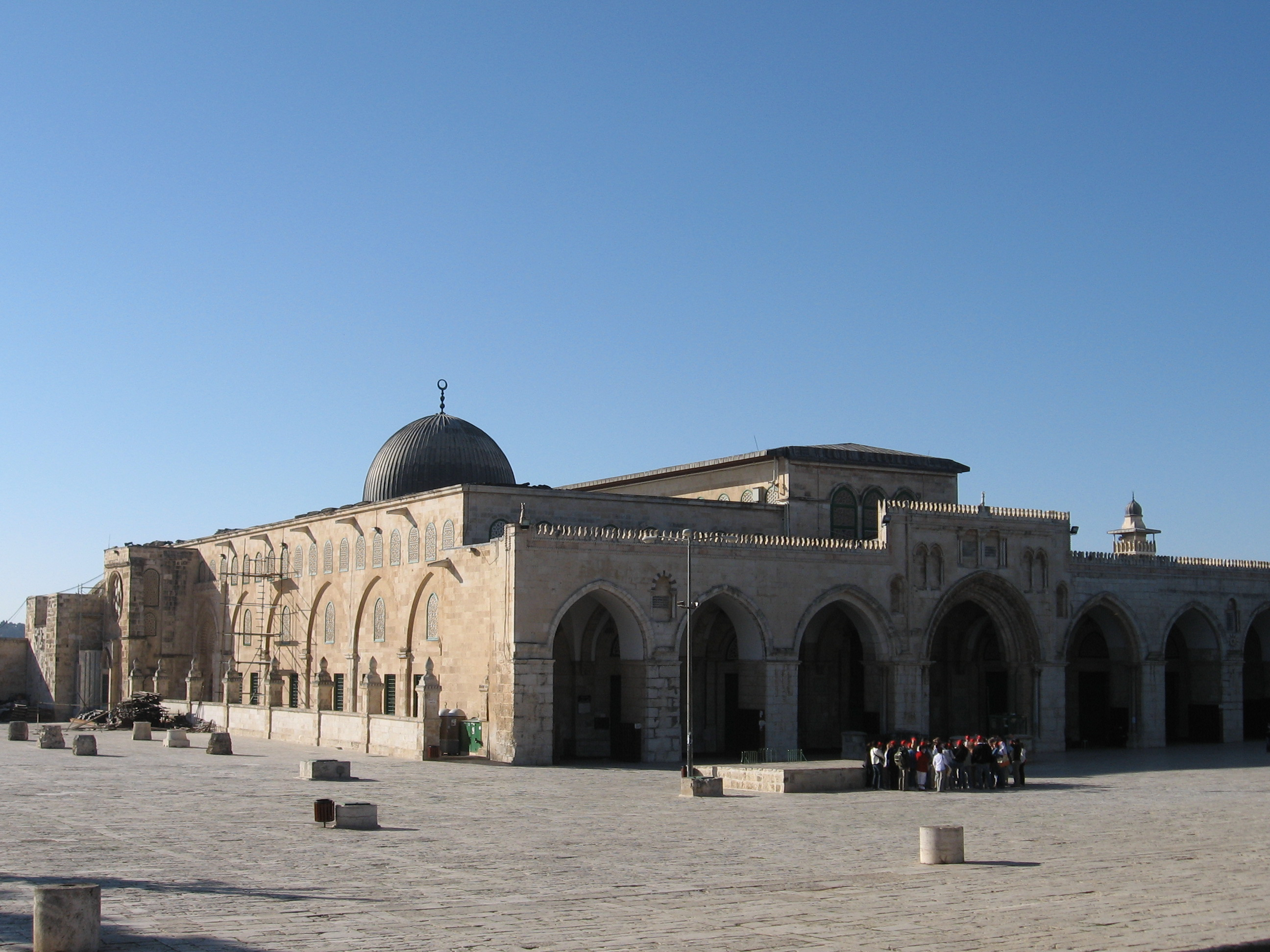 The Al-Qibli chapel.